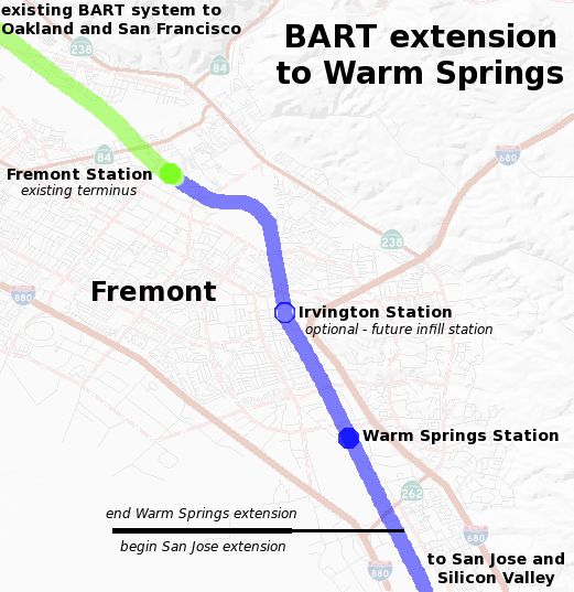 Map of the planned Bay Area Rapid Transit extension to Warm Springs. The background map of Fremont was generated by the USGS National Map. The route and plans are based on data from BART including the Warm Springs project alignment description.